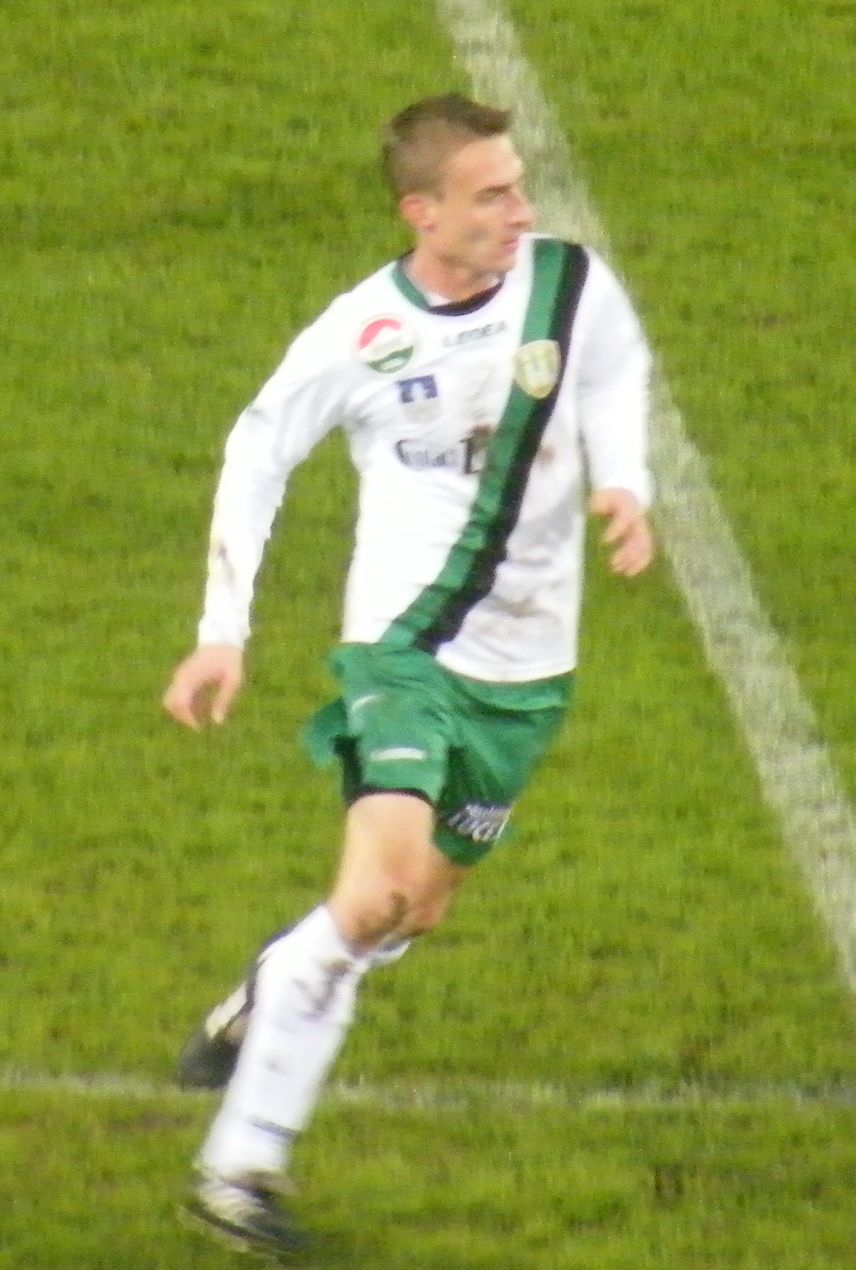 Gábor Rajos Hungarian association football player.